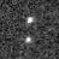 Hubble Space Telescope image of the cubewano 88611 Teharonhiawako and its companion Sawiskera, taken on 15 November 2010